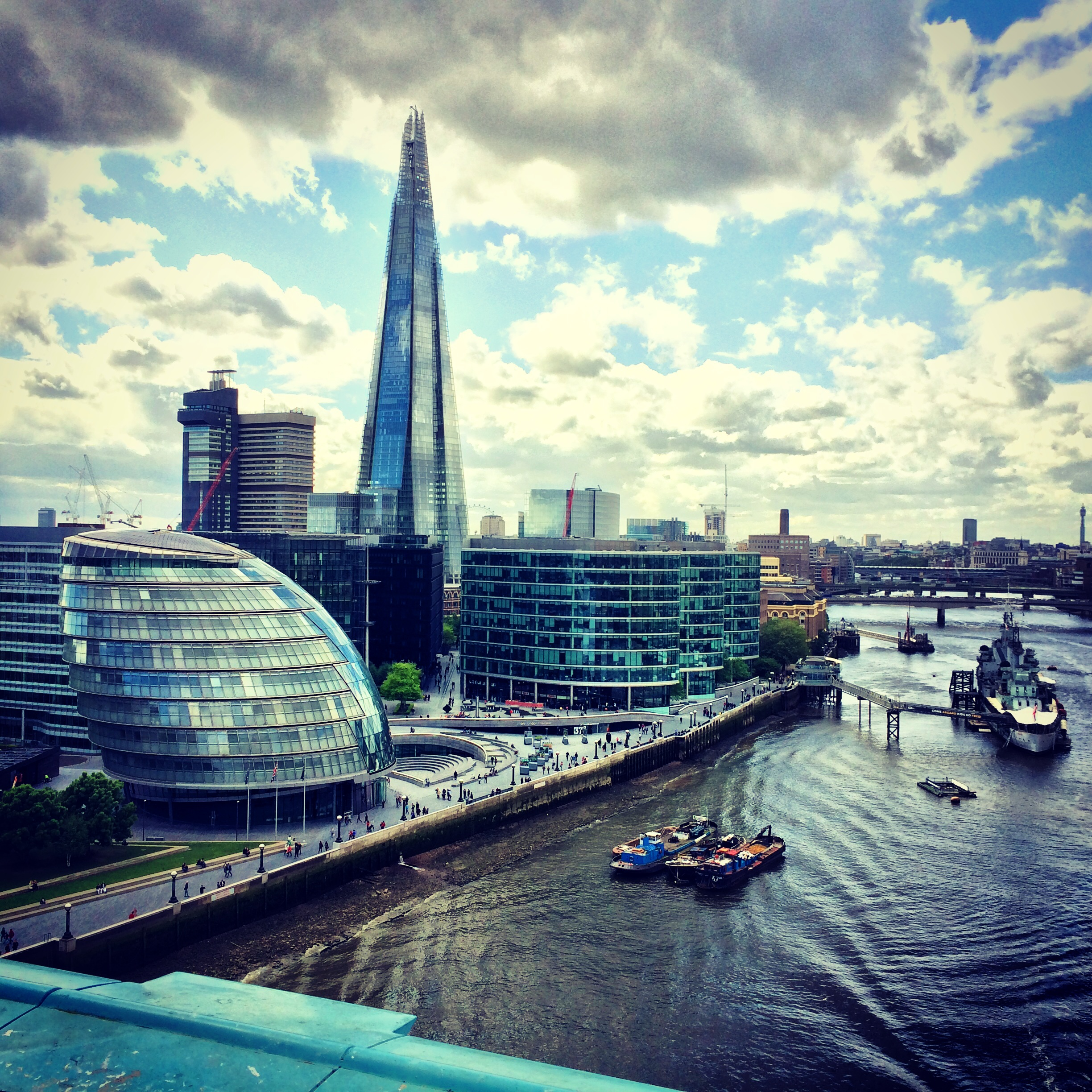 The London Cityhall and the Shard, Europe's highest skyscraper with filter